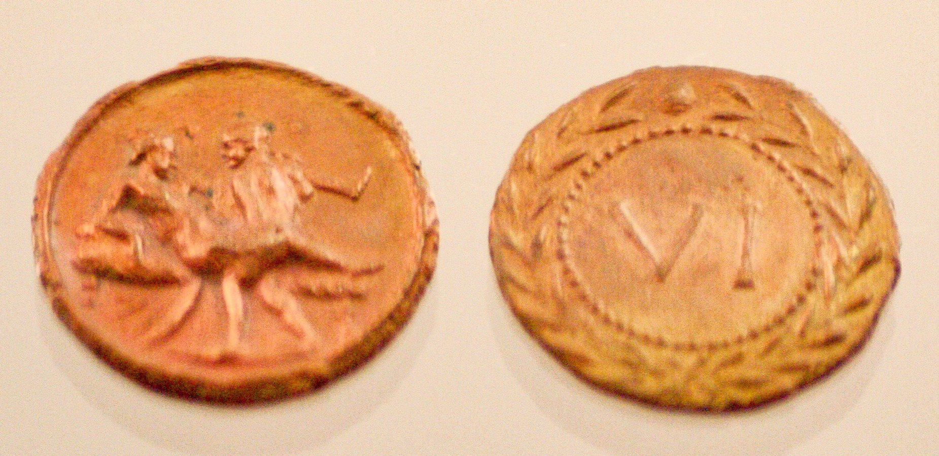 Roman Spintria. Photographed in exibition "100.000 Jahre Sex" in "Haus der Natur" Salzburg.